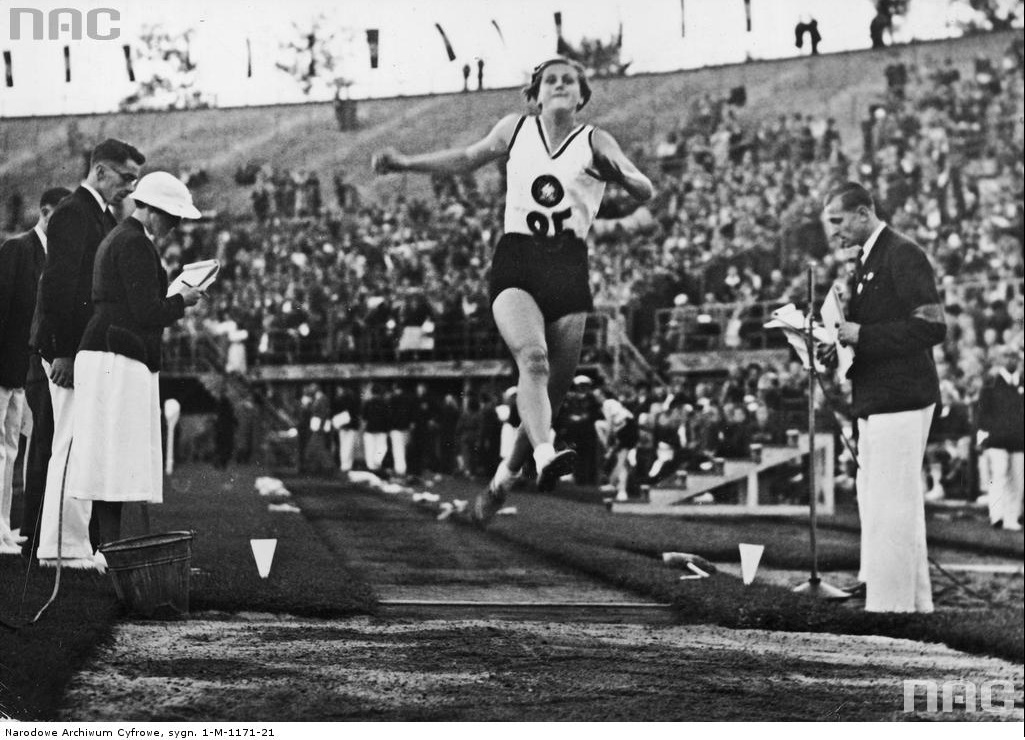 1938 European Athletics Championships (women) Vienna. Irmgard Praetz long jump.